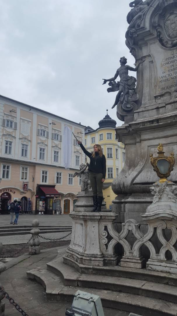 An Iranian woman showing support for the Girls of Enghelab Street in Hauptplatz in Linz